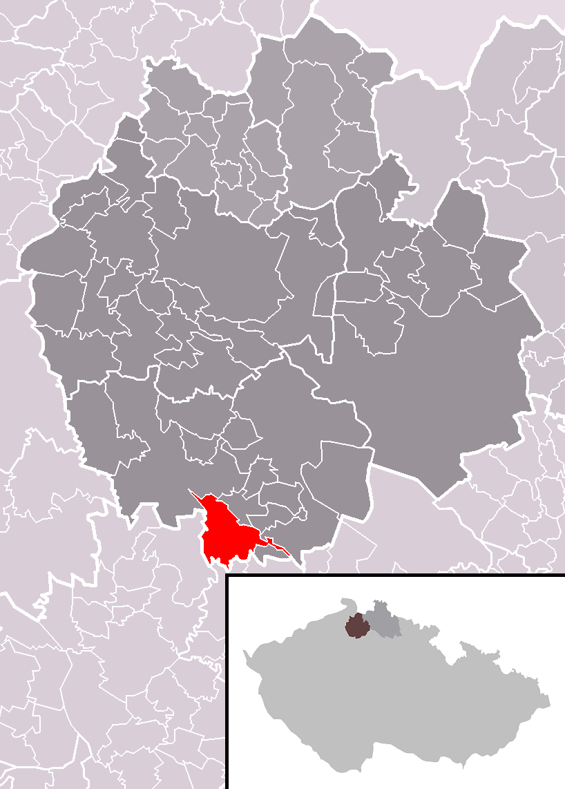 Location of Blatce municipality within Česká Lípa District and administrative area of Česká Lípa as a Municipality with Extended Competence.